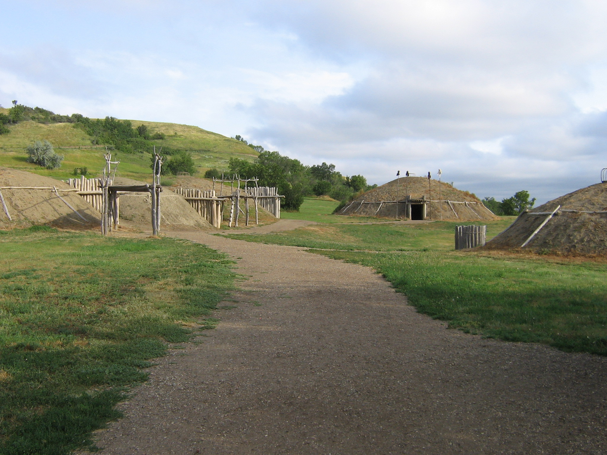 The partially-reconstructed Mandan village On-a-Slant in Fort Abraham Lincoln State Park near Bismarck, North Dakota